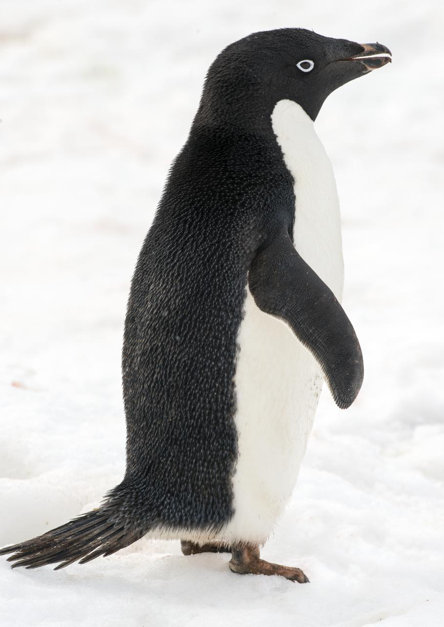 Antarctica 2013: Journey to the Crystal Desert